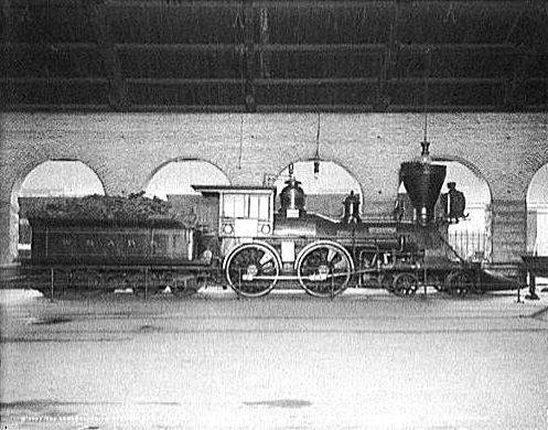 Rogers, Ketchum & Grosvenor-built locomotive The General, as seen circa 1907 at Union Station, Chattanooga, Tennessee.